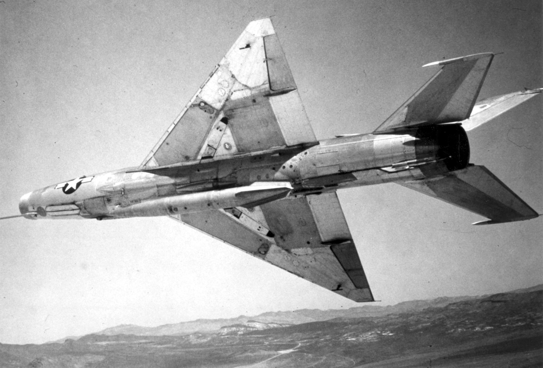 Soviet-built MiG-21 in U.S. national markings. This is a left underside view of one of twelve Soviet-made Mig-21 Fishbed-C aircraft flown by the US Air Force for air-to-air combat training.